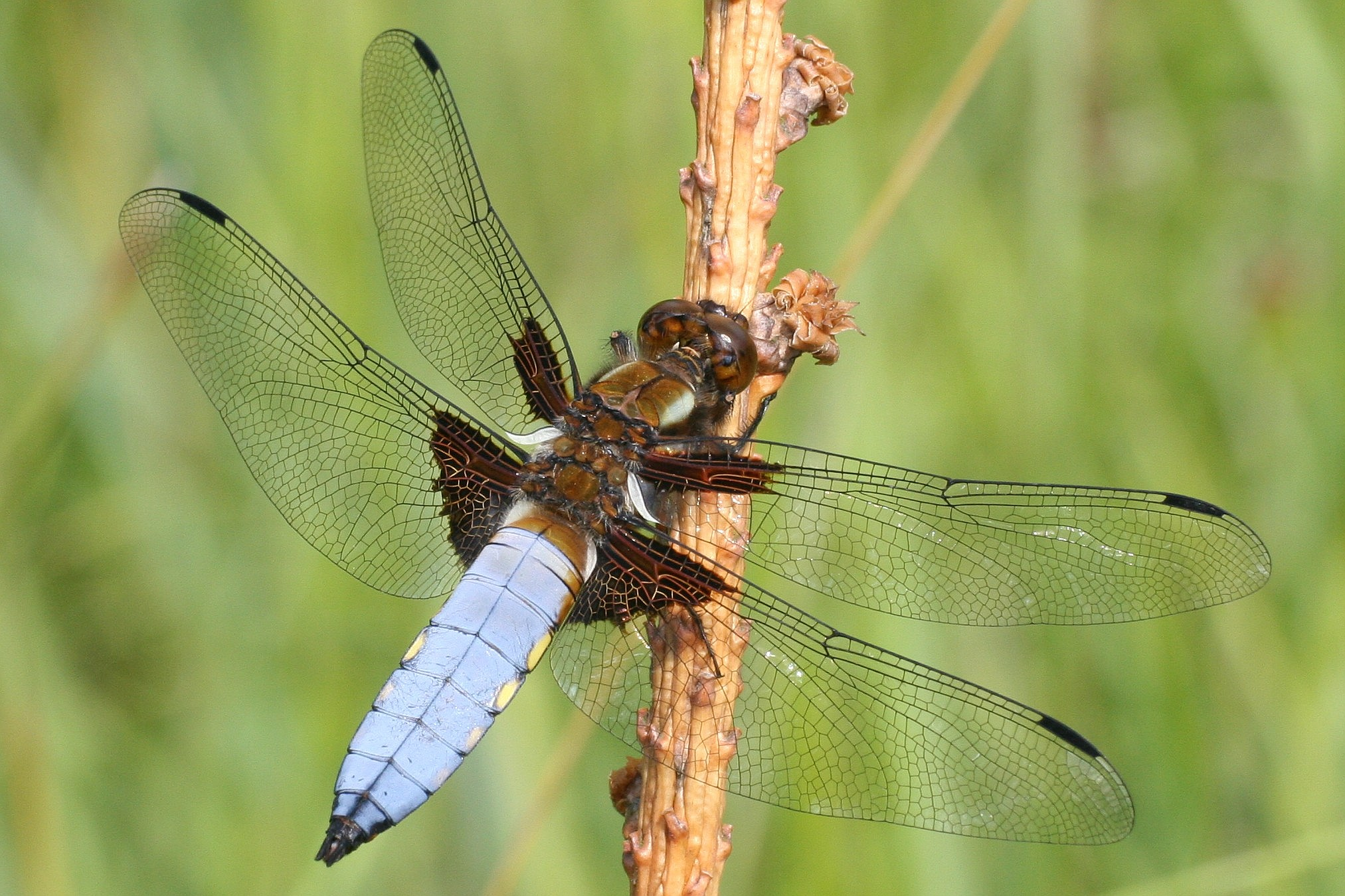 Male broad-bodied chaser dragonfly, photographed in Weinsberg